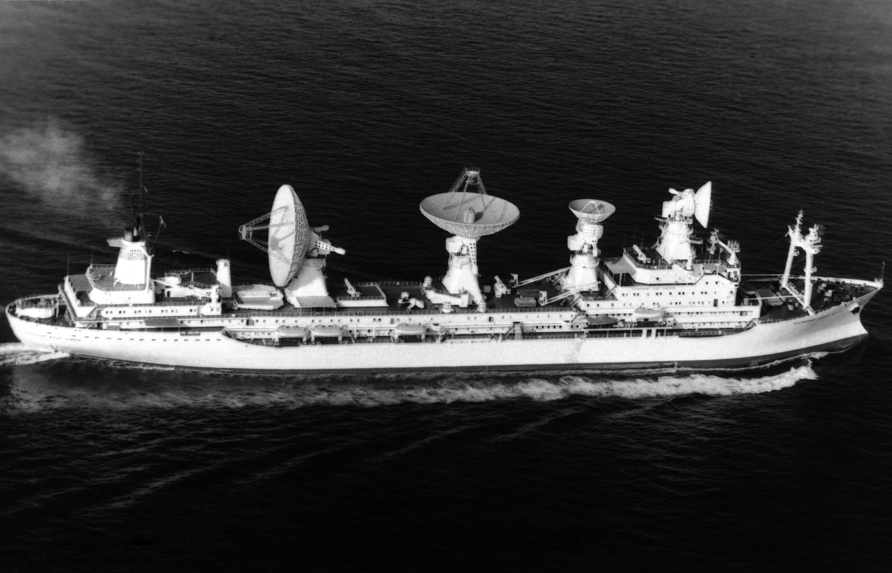 An elevated starboard view of a Soviet space control/monitoring ship Kosmonavt Yuriy Gagarin underway.